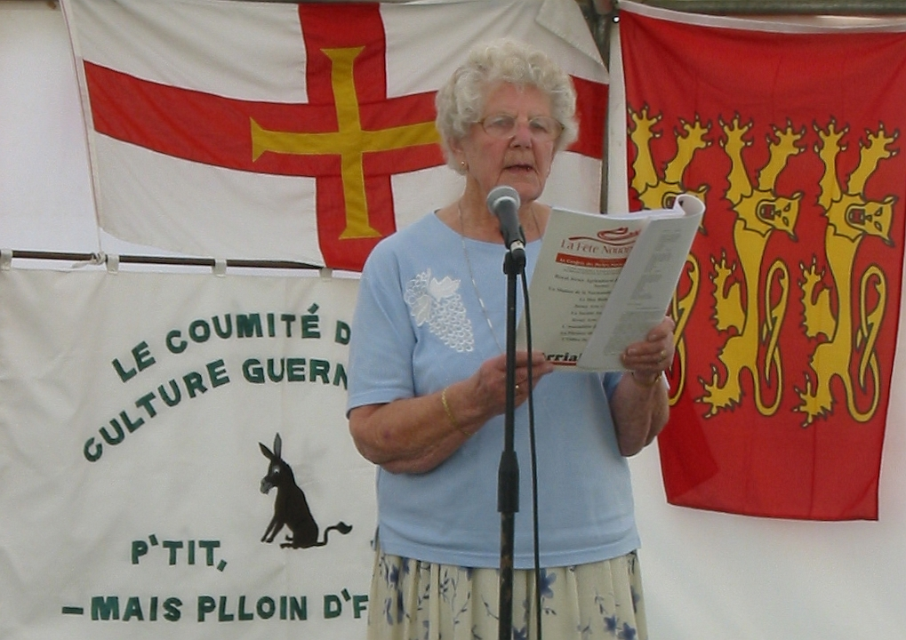 Fête des Rouaisouns, Jersey 2008